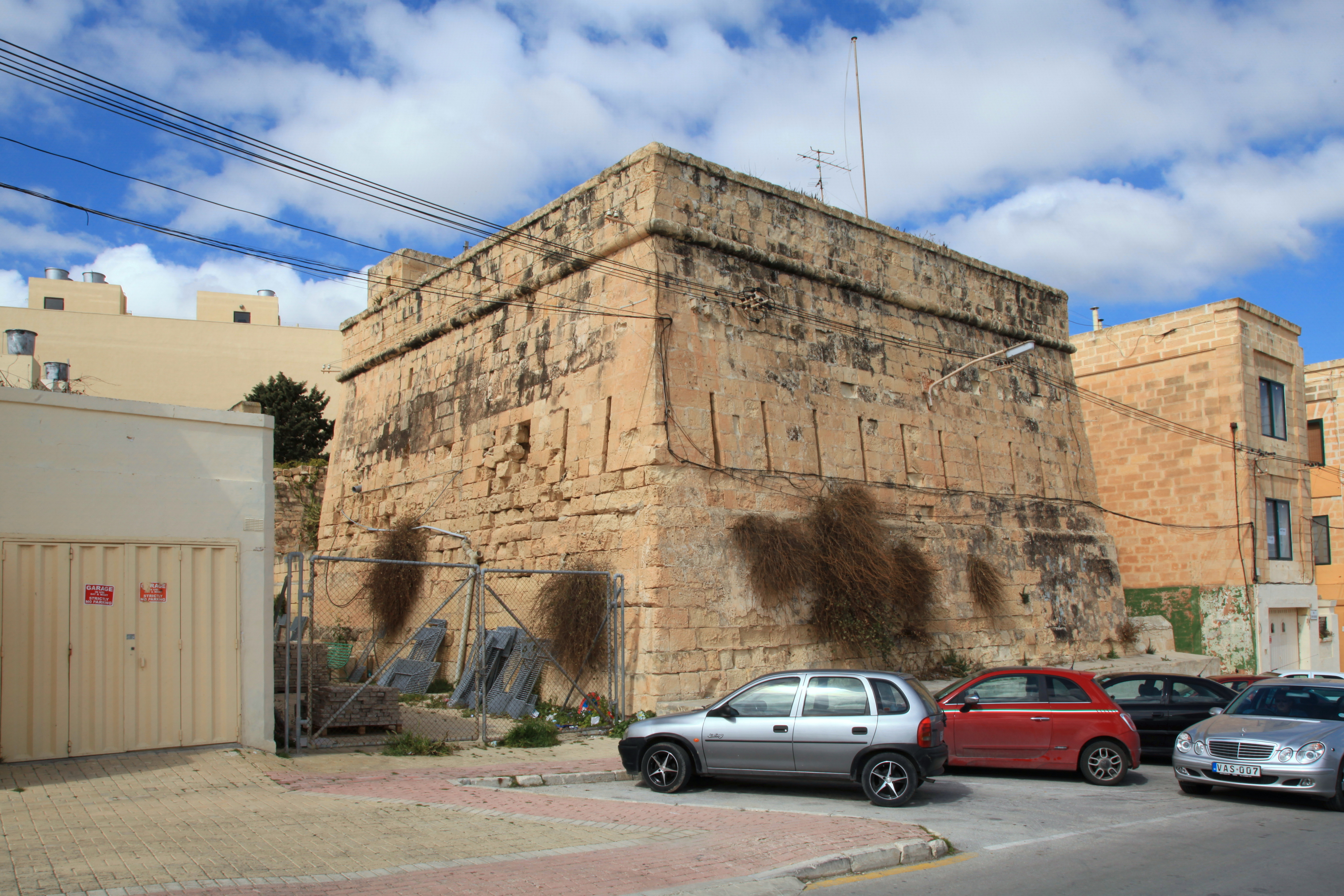 Triq it-Torri Vendome in Marsaxlokk, Malta